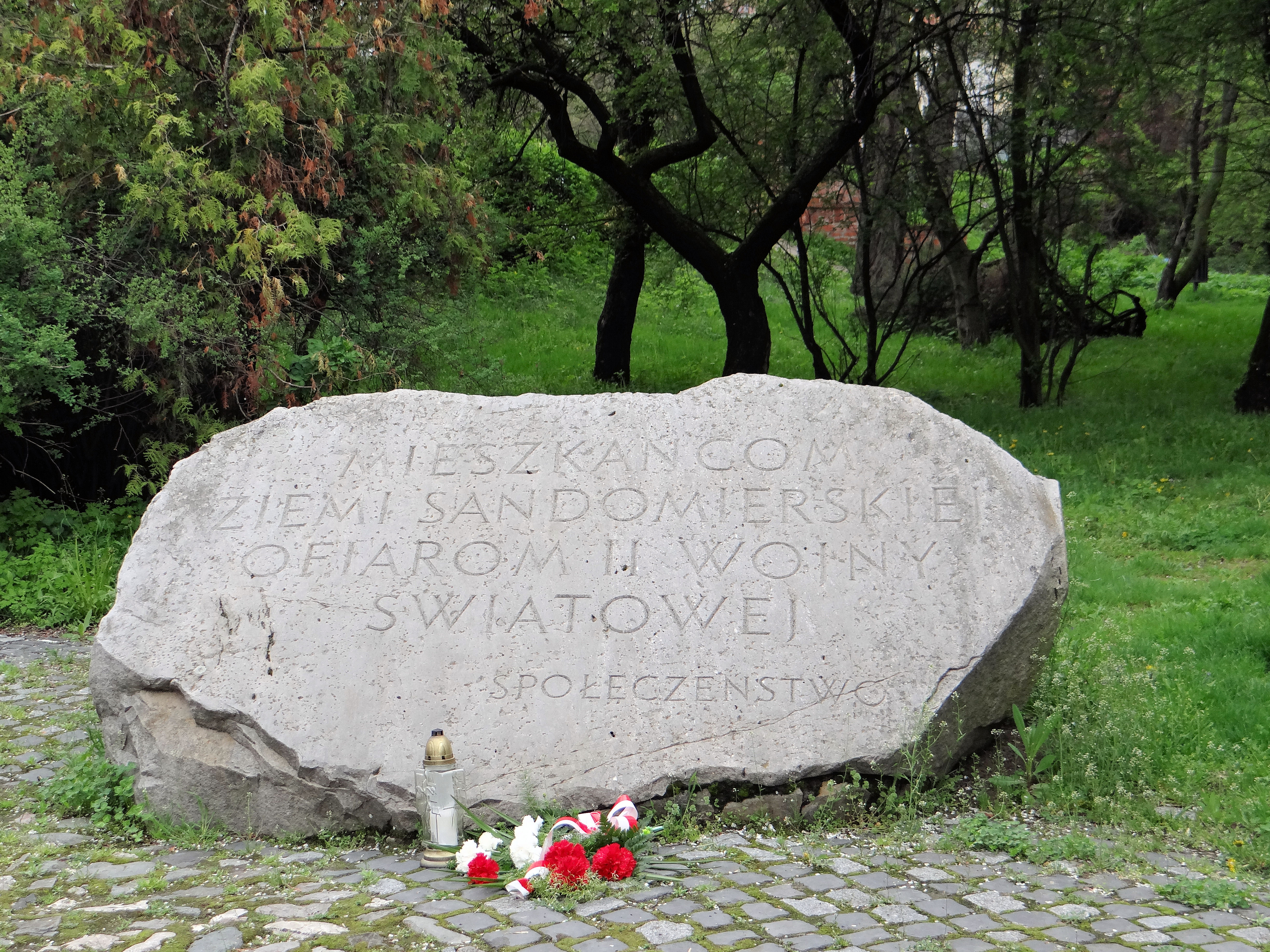 Stone commemorating the victims of World War II in the Sandomierz and vicinity